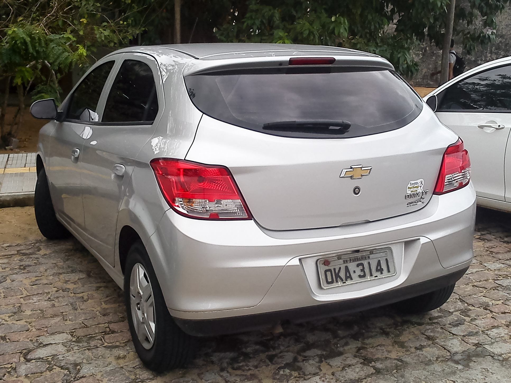 Chevrolet Onix LT